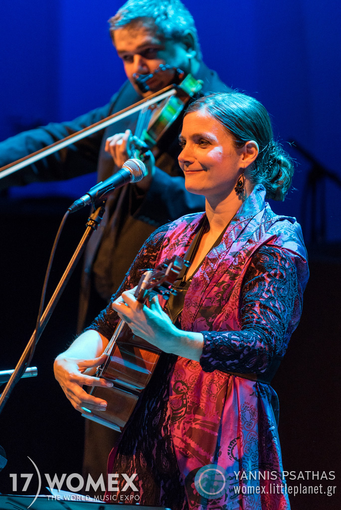 Marta Topferova & Milokraj by Yannis Psathas